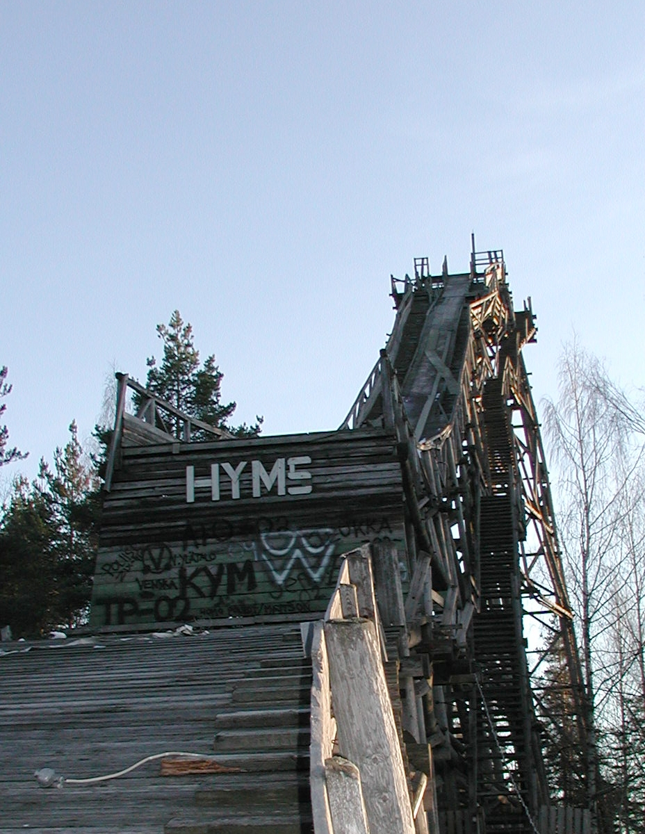 The Ski jump hill of Sveitsi, Hyvinkää, Finland